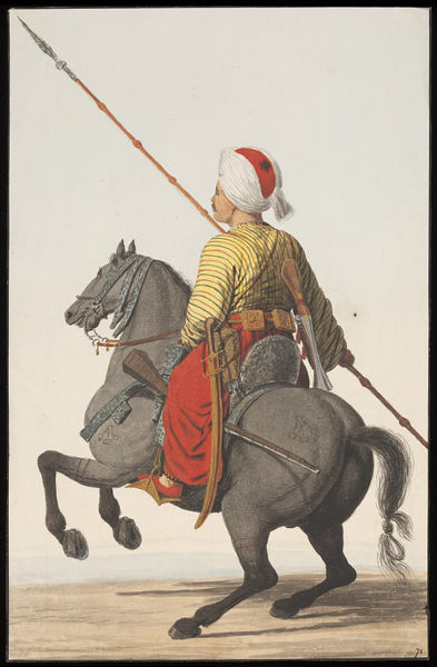 Sipahi cavalryman